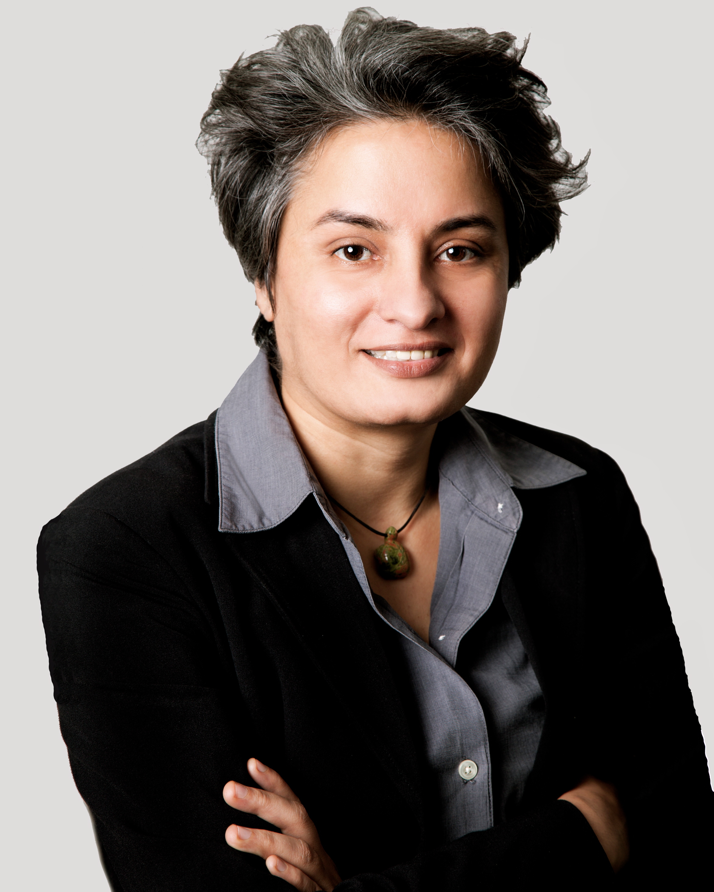 Business speaker and comedian